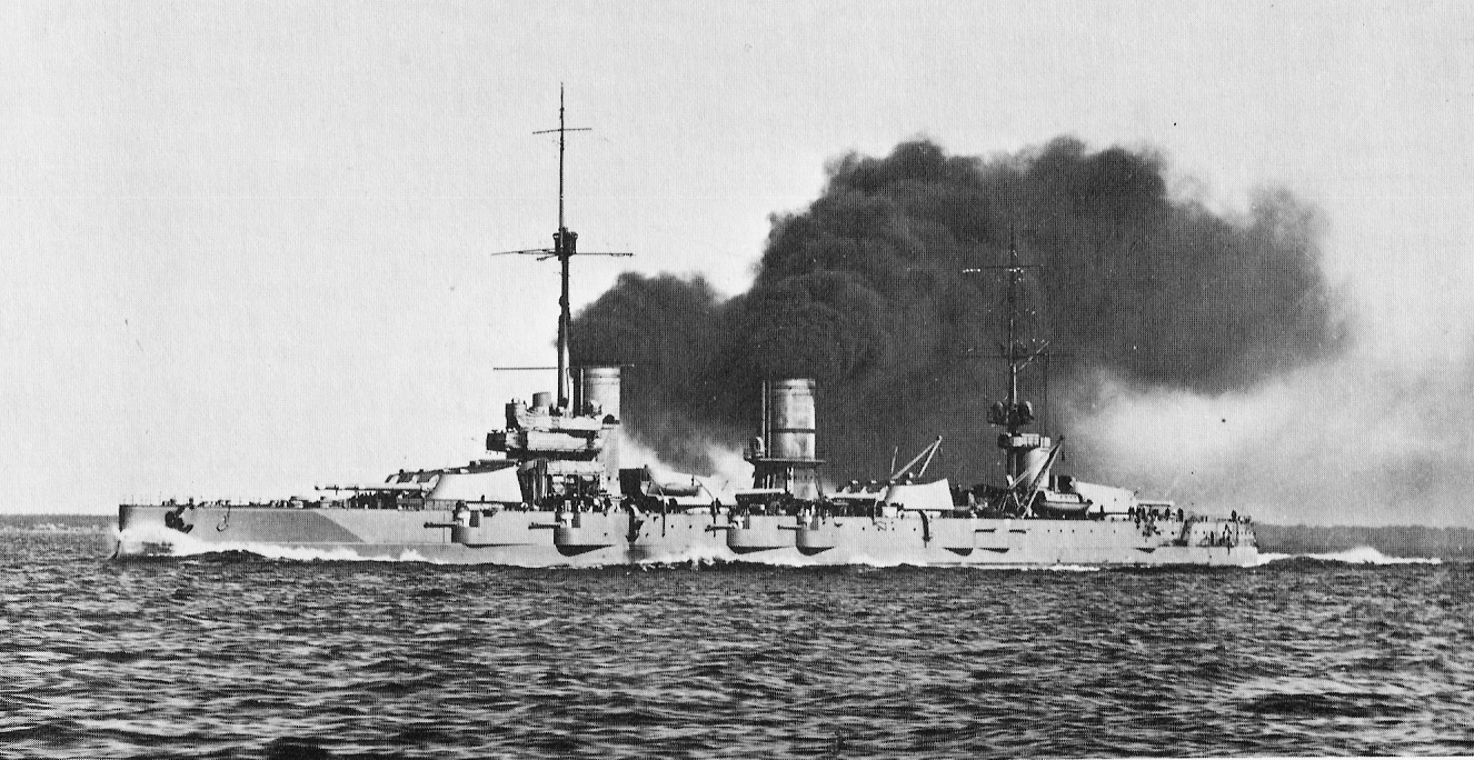 Imperial Russian dreadnought battleship Poltava at full steam in 1916.